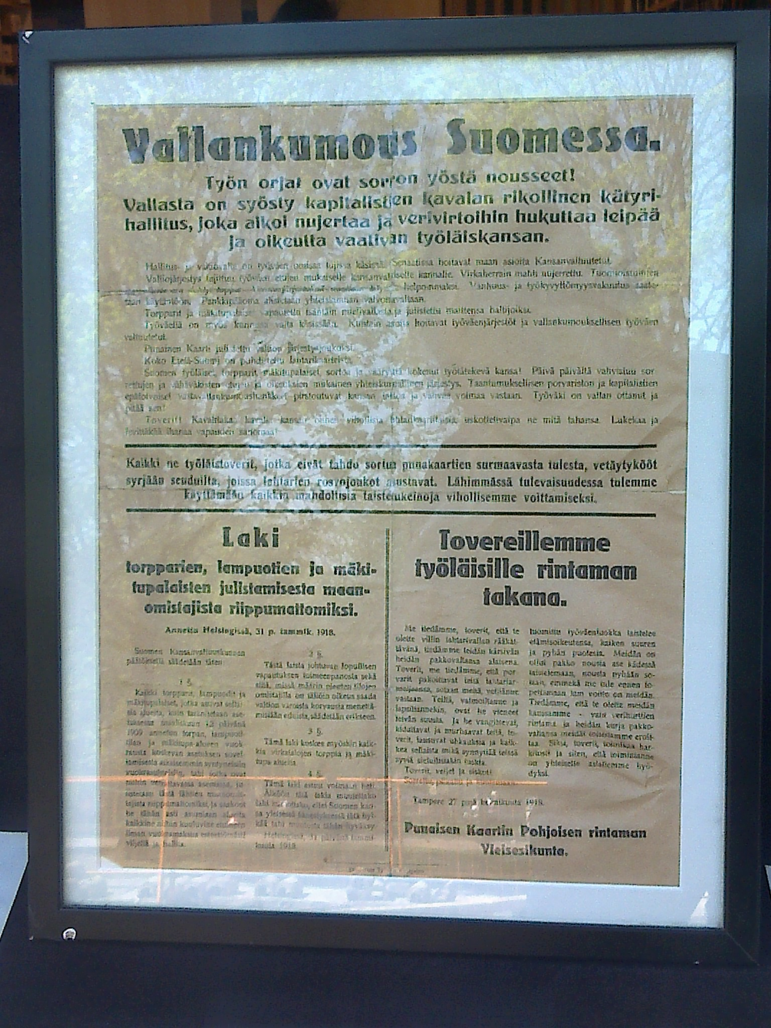 A 1918 poster announcing the revolution in Finland, part of the Finnish Civil War. The lower-left section contains a law whose text is here